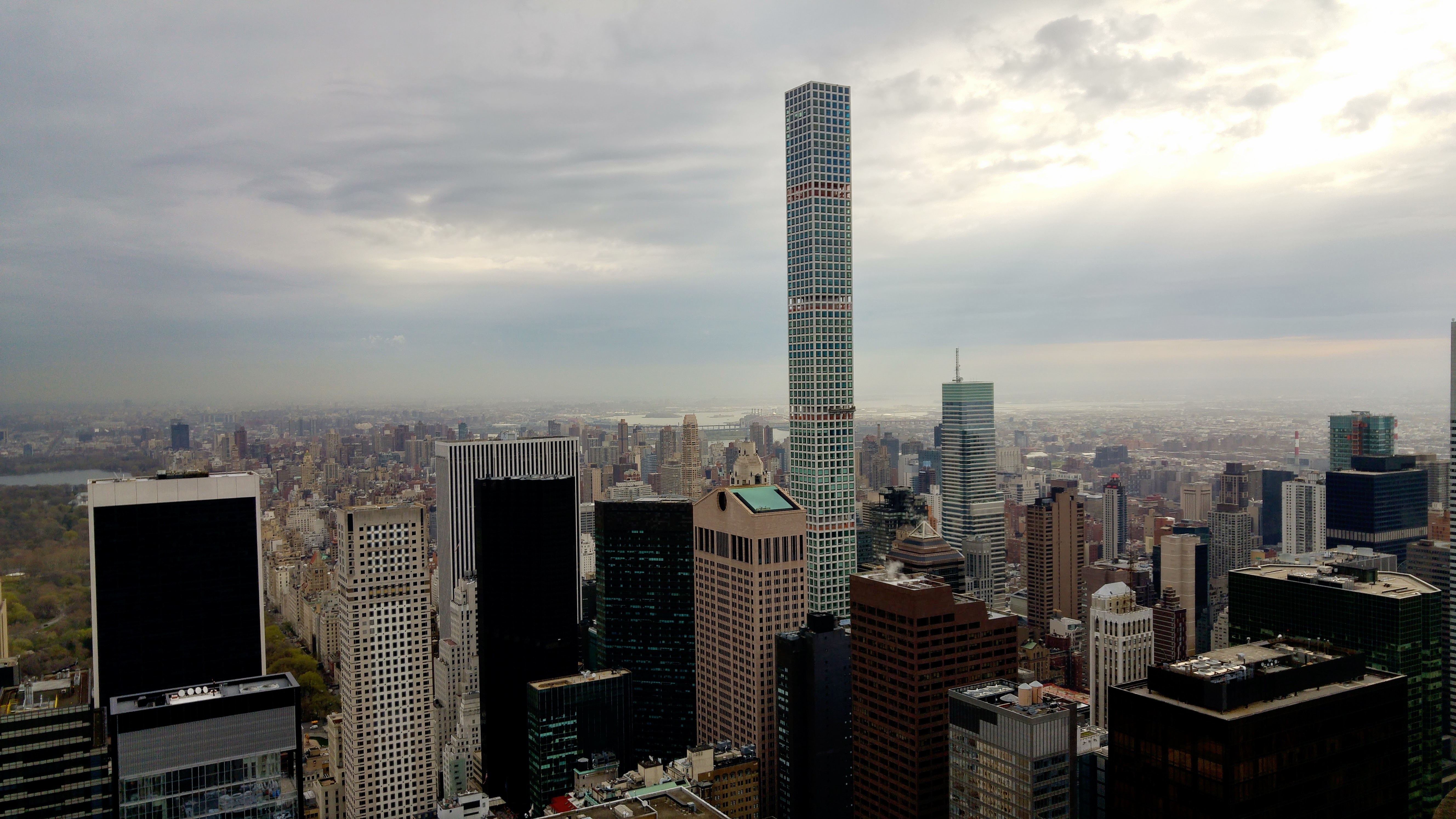 432 Park Avenue on April 1, 2016